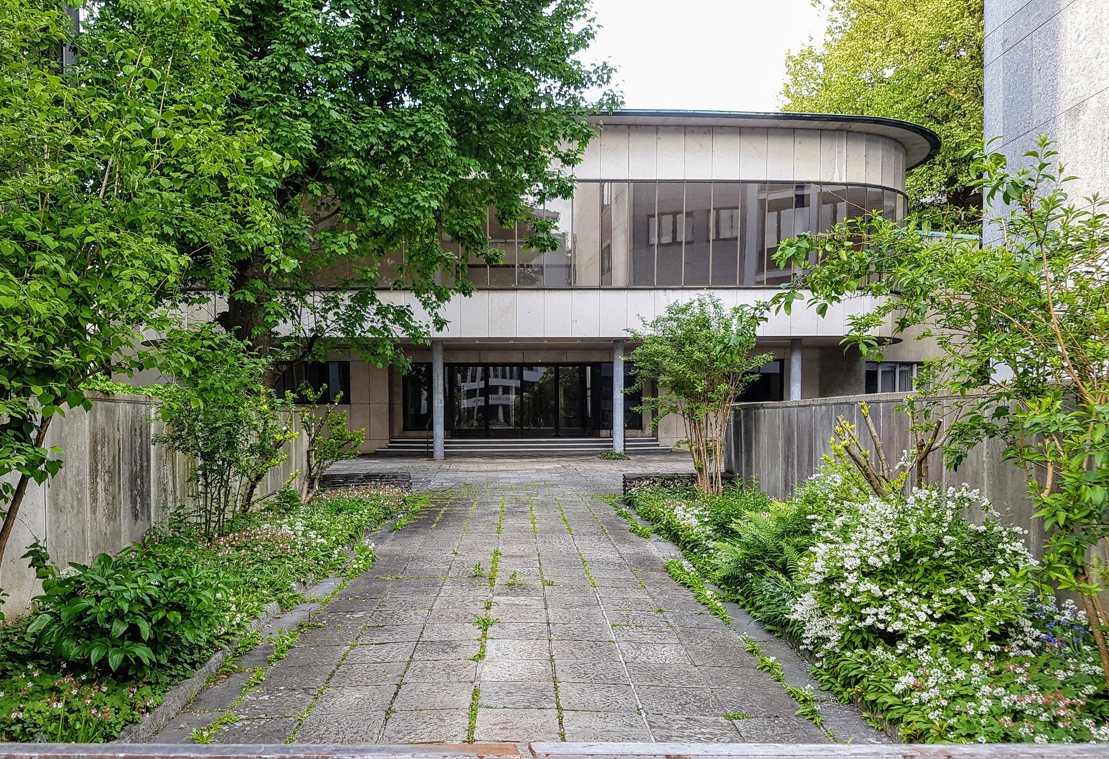 Erste Kirche Christi, Wissenschafter (Basel)